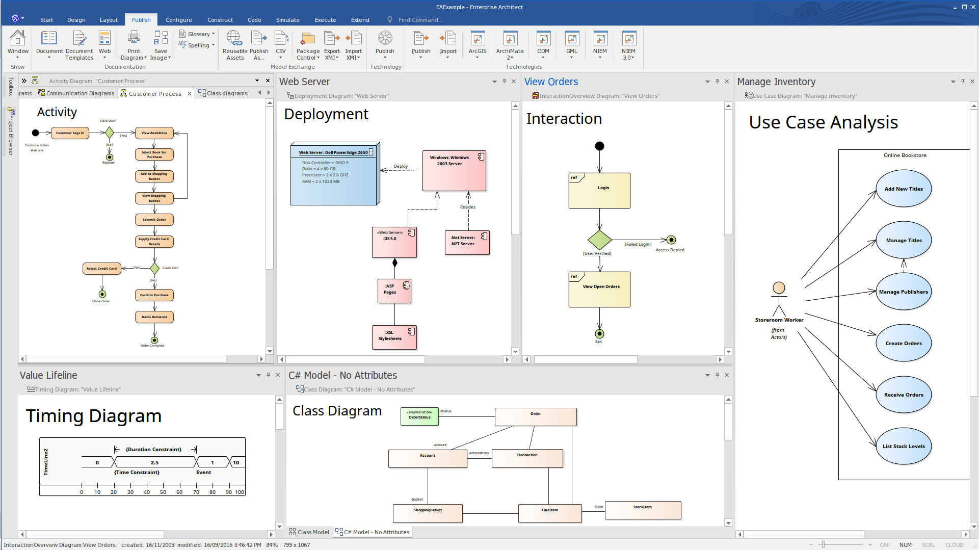 A reflection simulation using Enterprise Architect